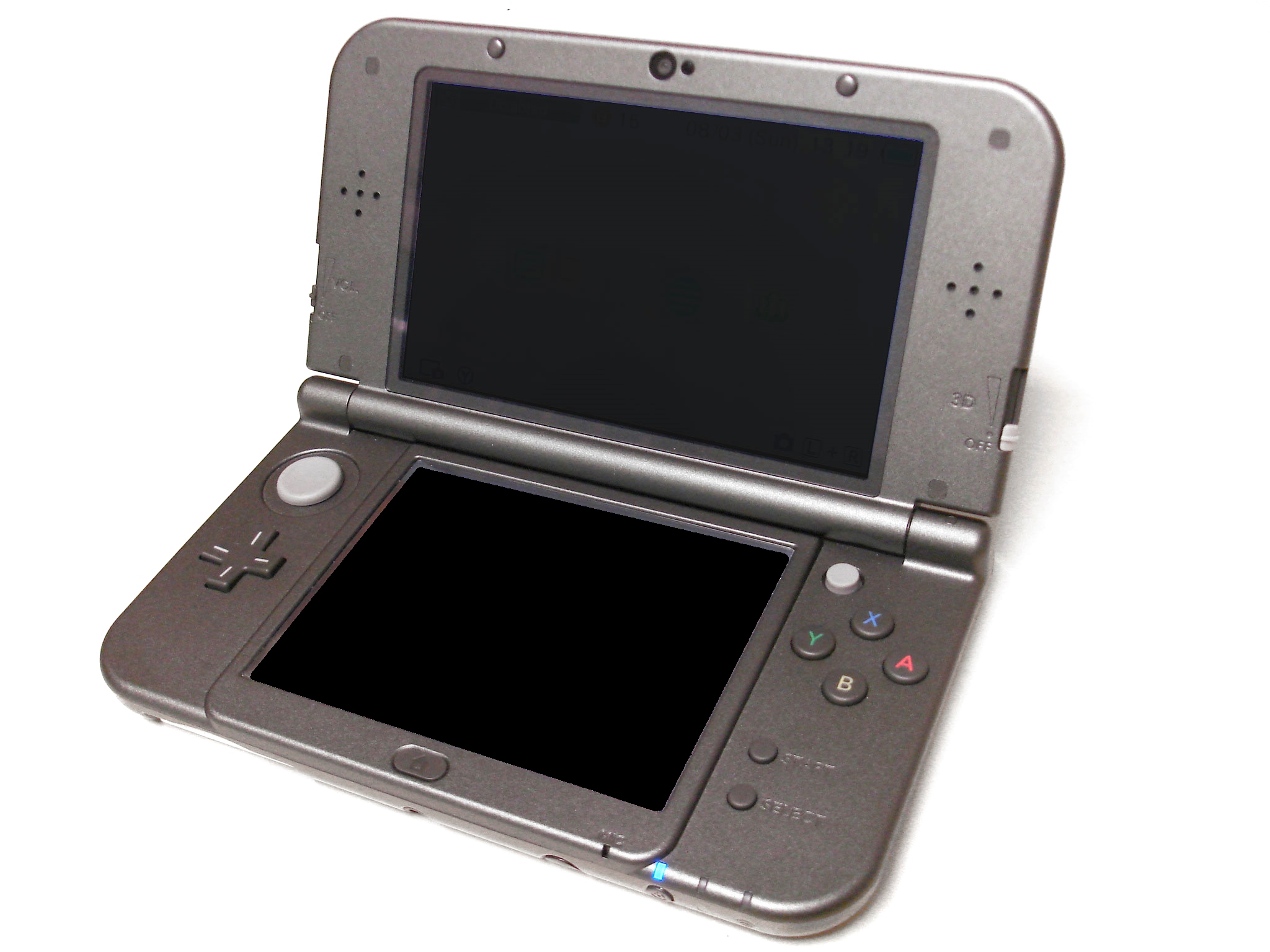 Photo of my New Nintendo 3DS XL console